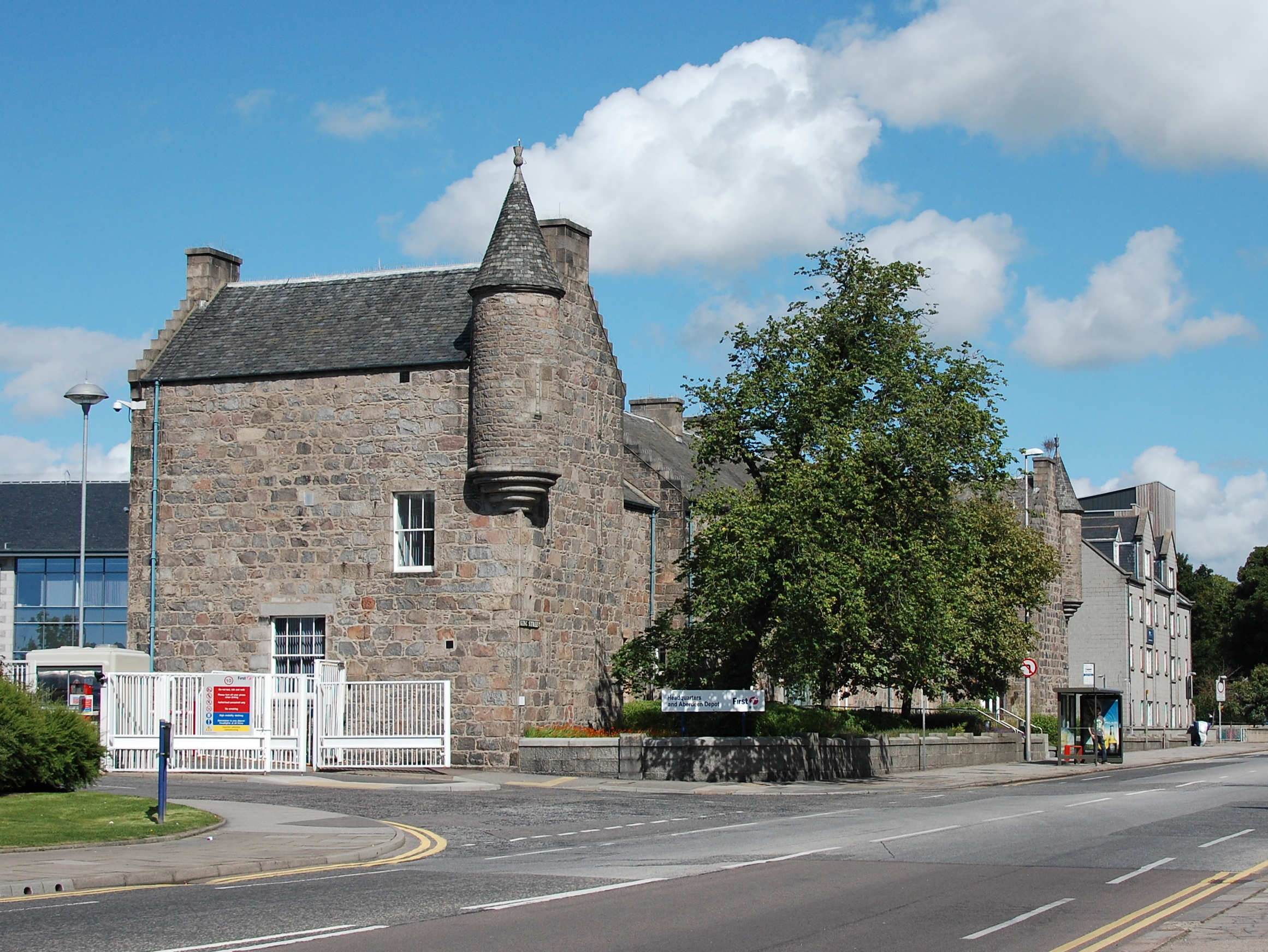 First Aberdeen bus depot and offices, King Street